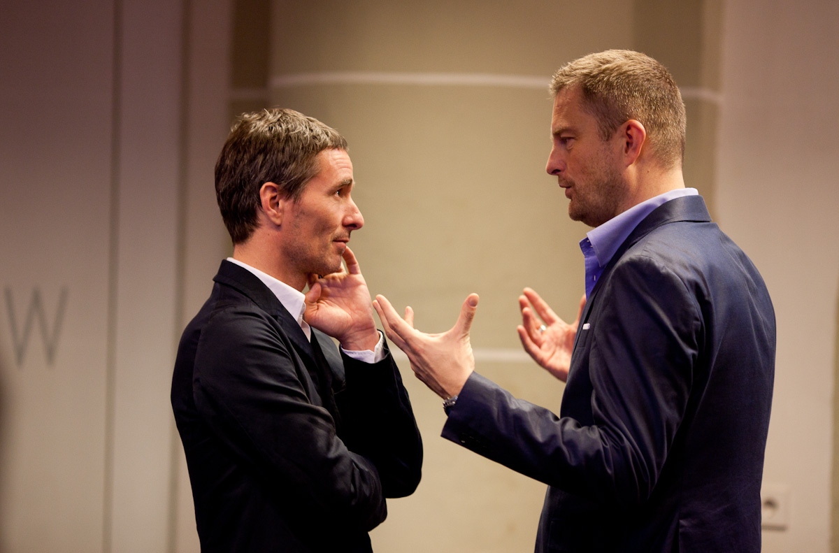 Valentyn Byvank and Erik Schilp of the (never realised) Dutch National Historic Museum (November 2010)